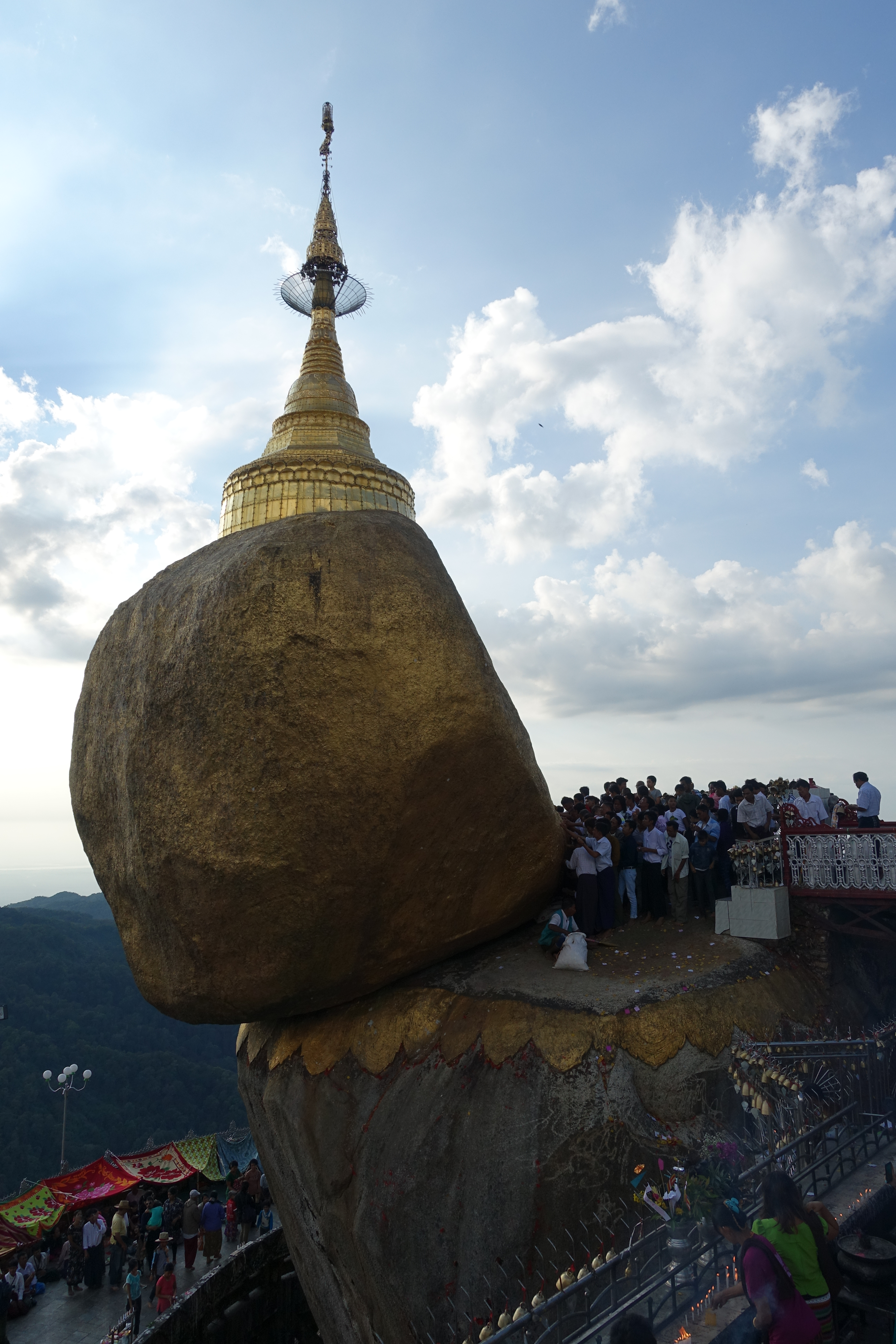 Golden Rock. Kyaiktiyo Pagoda. Pilgrim Season Chrismas 2015